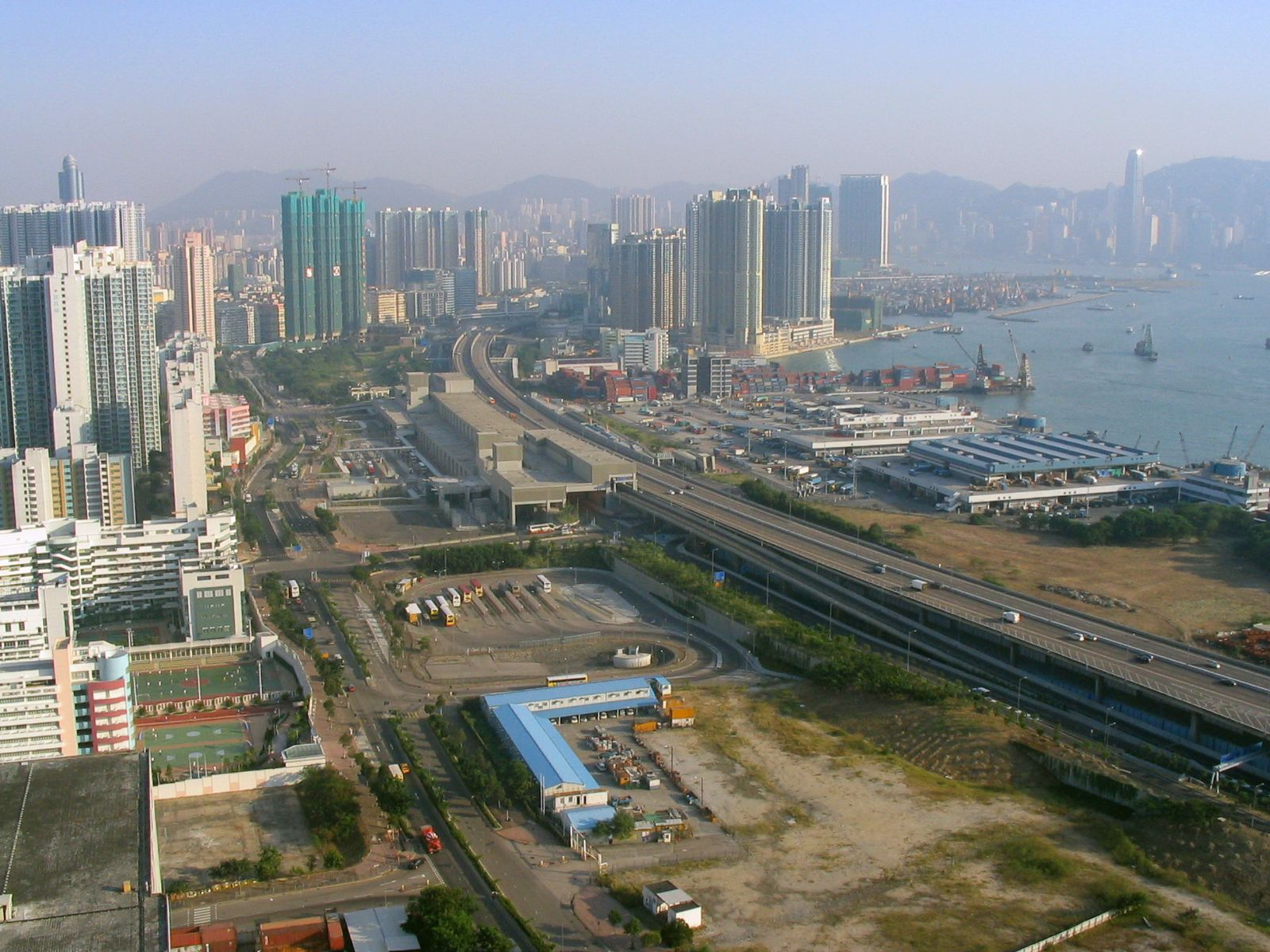 從長沙灣遠眺西九龍填海區 West Kowloon reclaimation Area viewed from Cheung Sha Wan